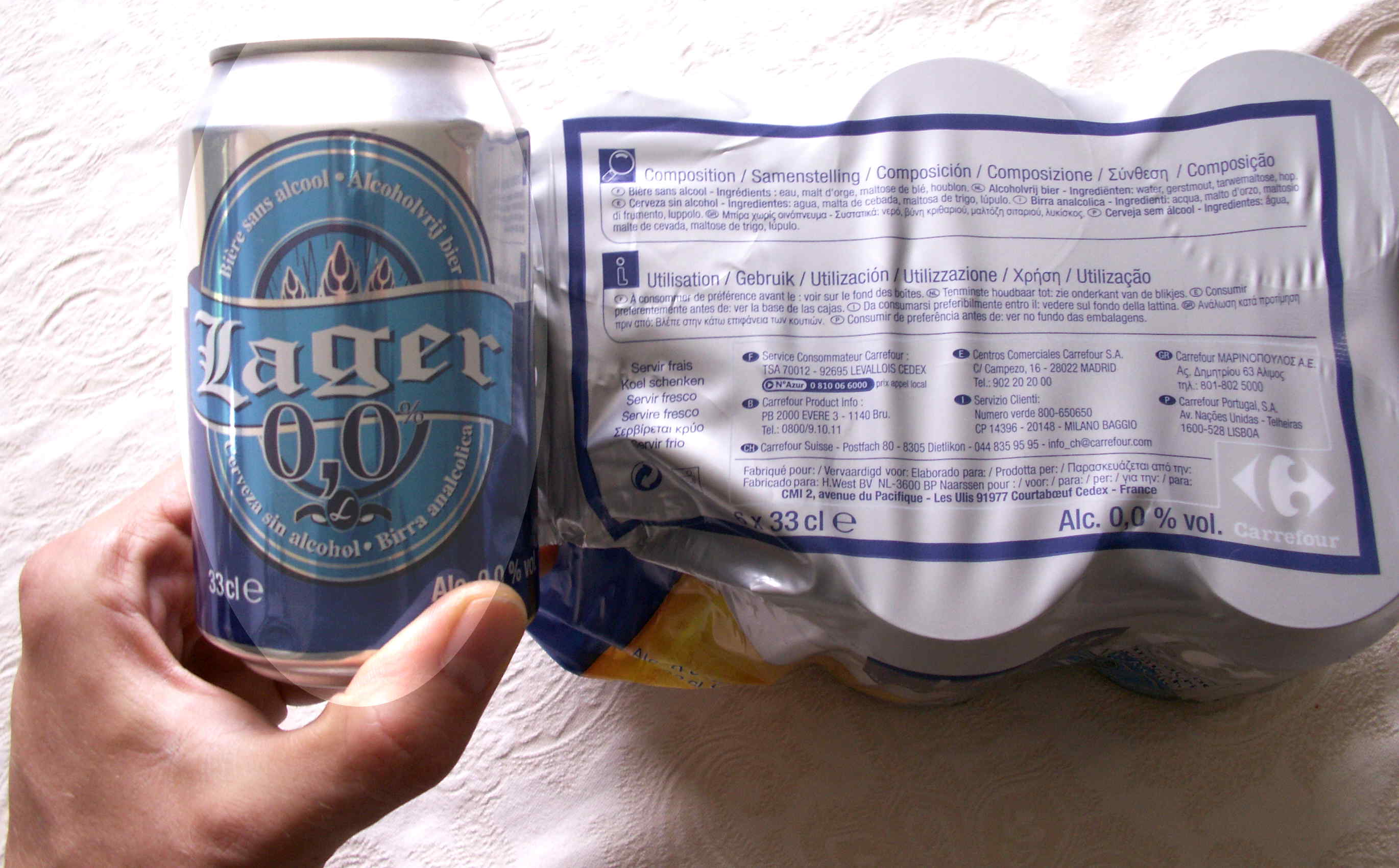 A picture of a beer containing no ethanol (or "alcohol") at all. These types of beer are hard to find (most NA-beers still contain 0.20-1% ethanol by volume; which is thus significant in comparison). This is a store brand made by a Dutch company named 'H.West BV' for French retailer Carrefour.